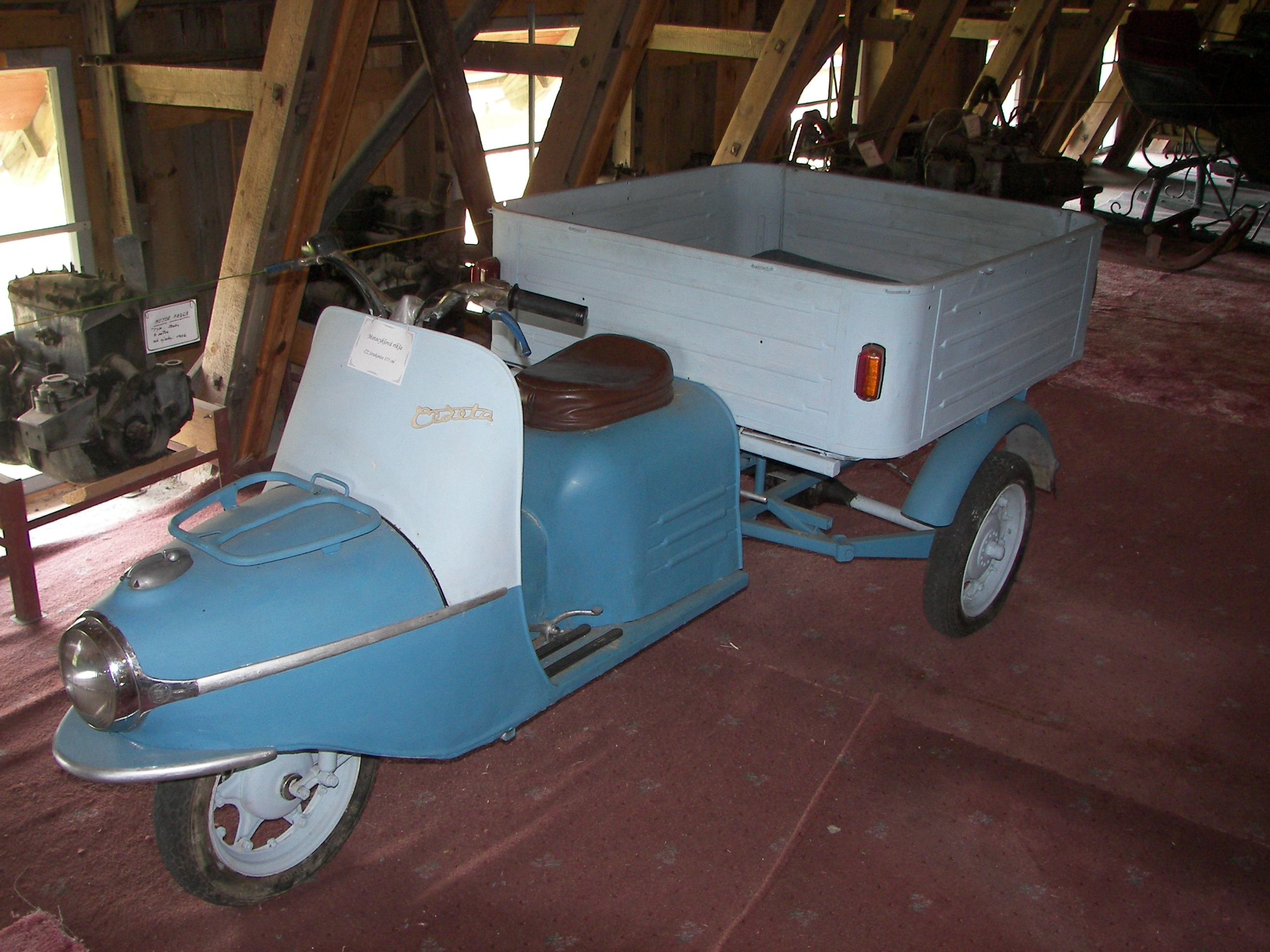 Čezeta 505 three-wheeled vehicle.